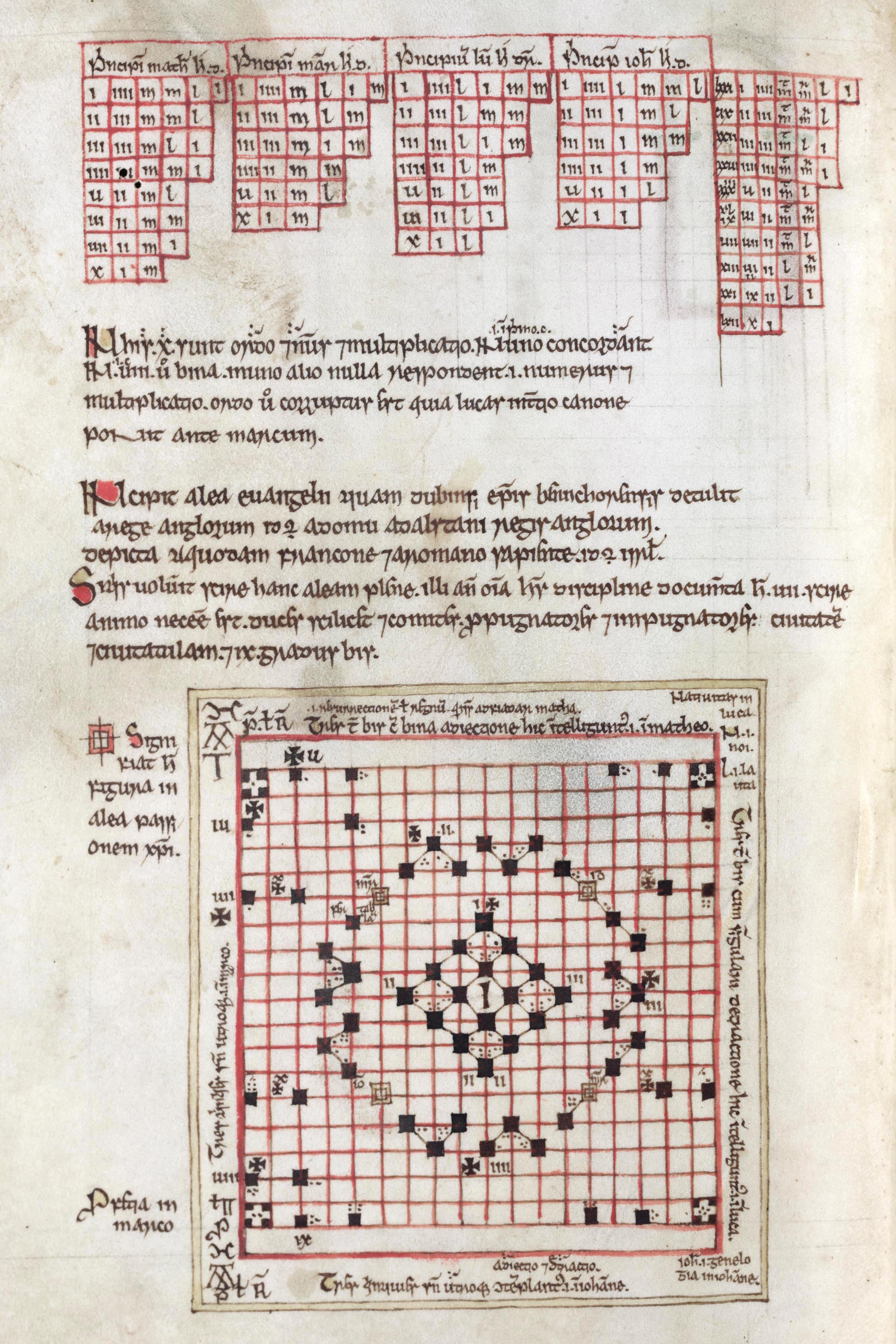 Picture of the board game Gospel Dice, played at the court of King Æthelstan, in a twelfth-century Irish Gospel Book in Corpus Christi College, Oxford, MS 122, fol 5.